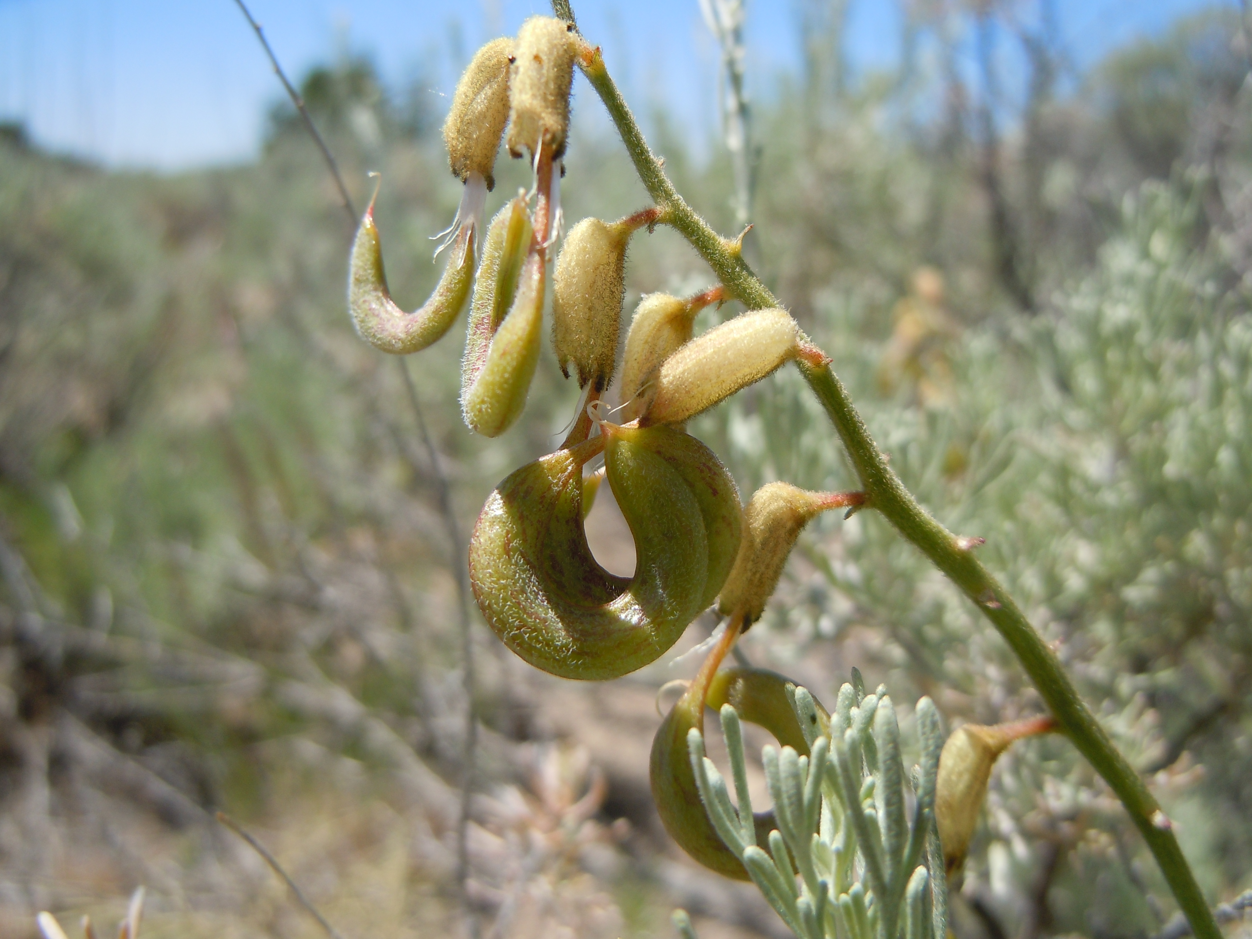 Astragalus curvicarpus is sporadically abundant at all elevations in the sagebrush steppe in this area and can be locally common along roadsides that are subjected to infrequent disturbance (as inside the INL boundary). The leaves of threetip sagebrush are projecting upward at the bottom right.